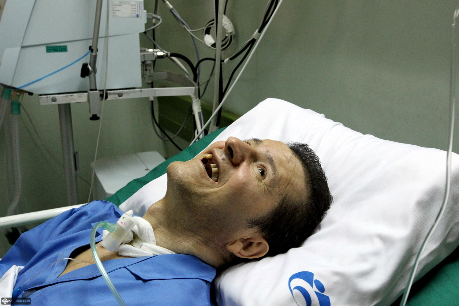 Ahmad Azizi in Coma - Imam Reza Hospital, Kermanshah